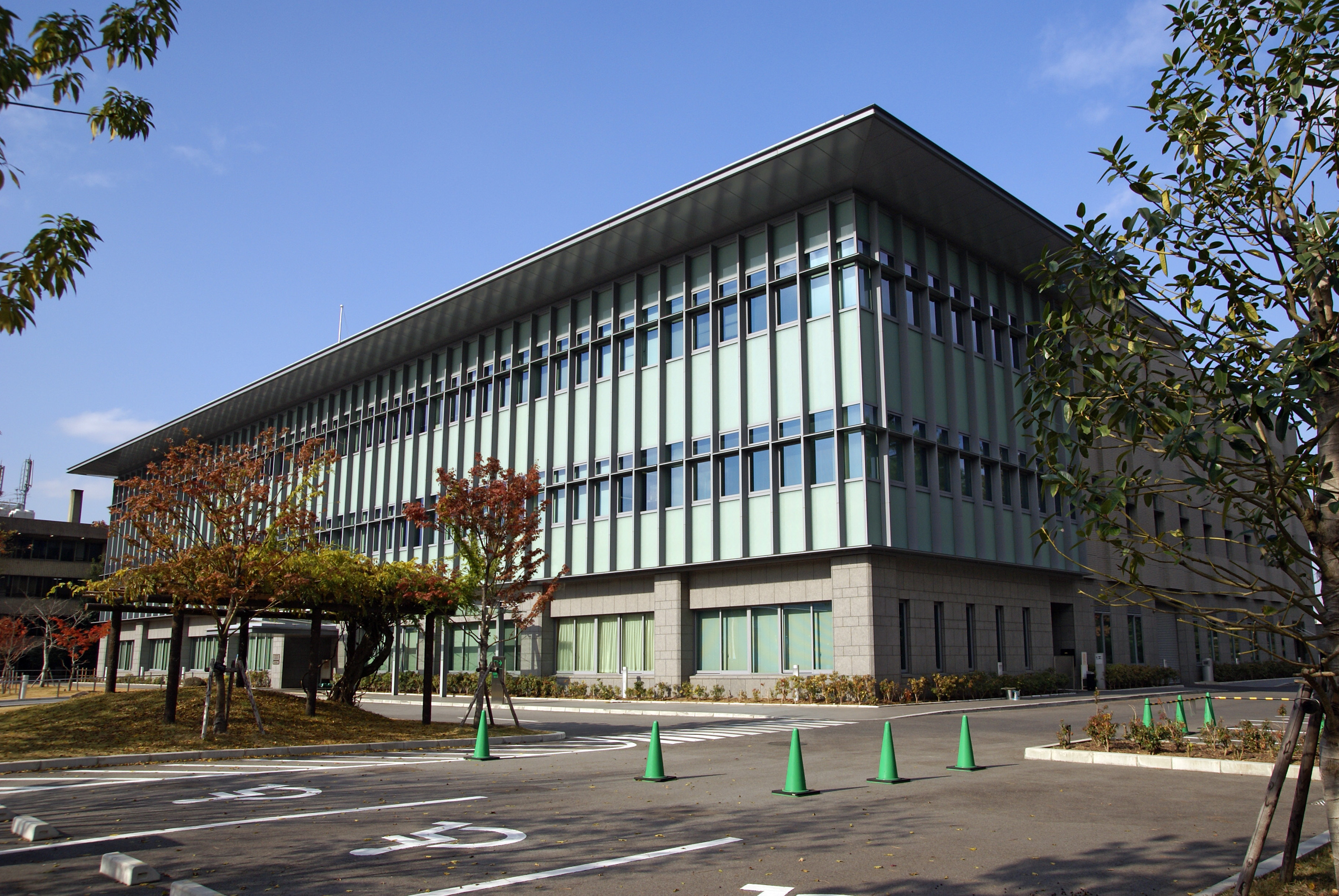 Nara District Court in Nara, Nara prefecture, Japan